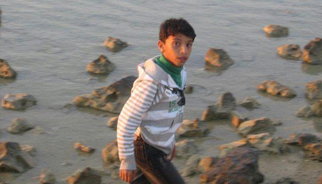 a picture of Ali Jawad al-Sheikh alive back in 2010